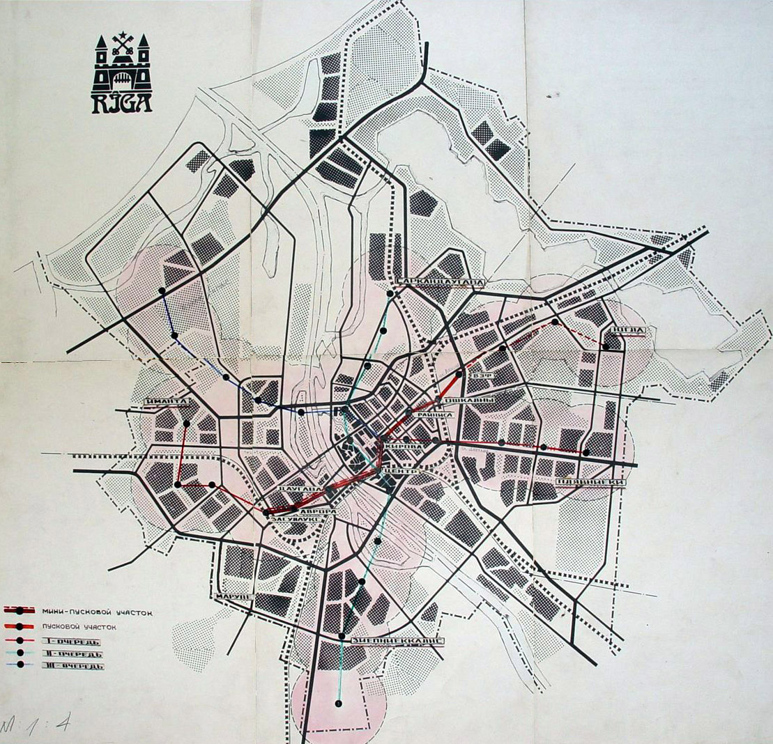 full project map of Riga metro